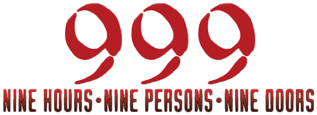 The logotype used for the reprint of 999: Nine Hours, Nine Persons, Nine Doors